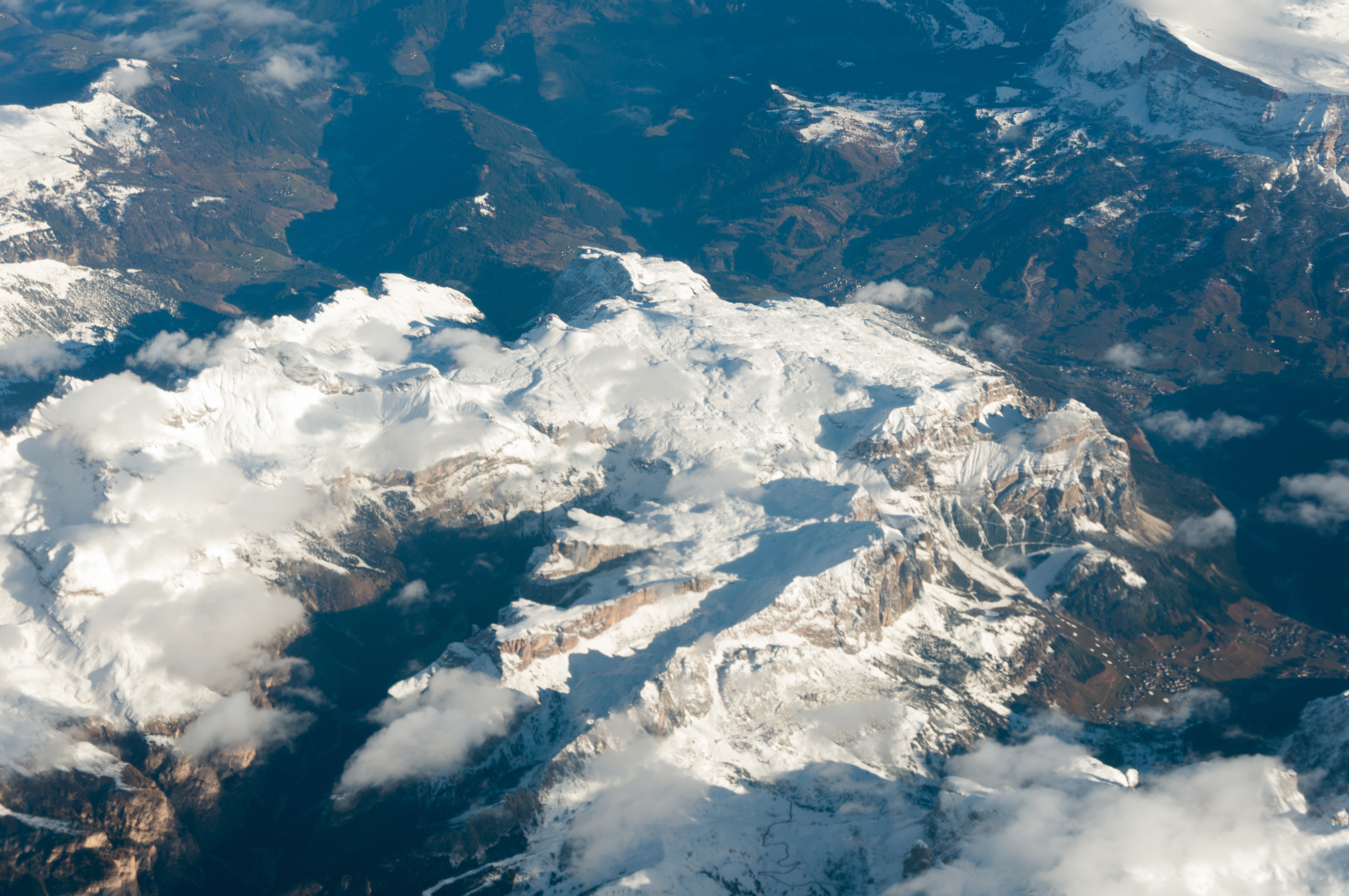 Italy, flight across the Italian alps